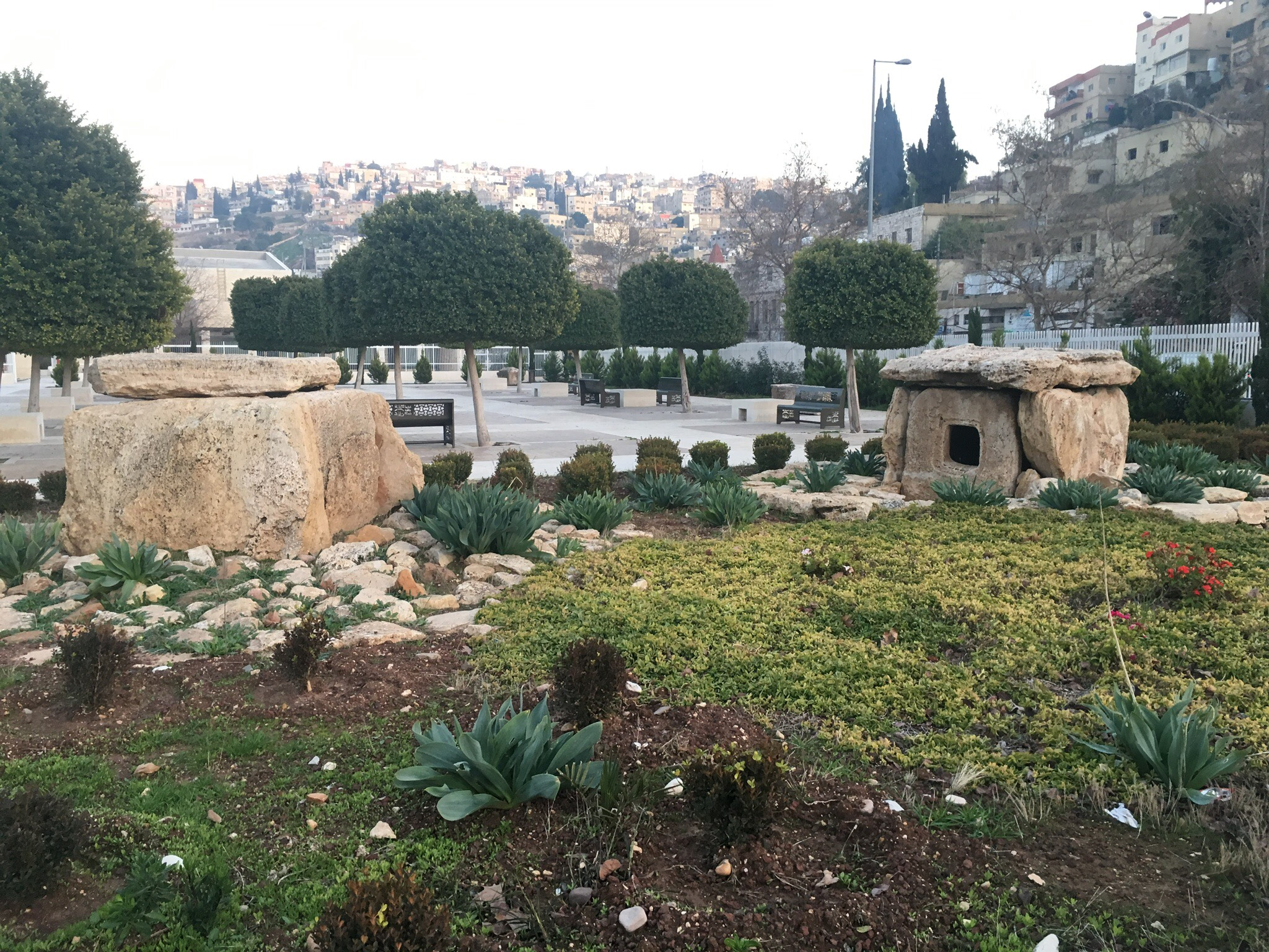 Dolmens on display at the entrance of the Jordan museum